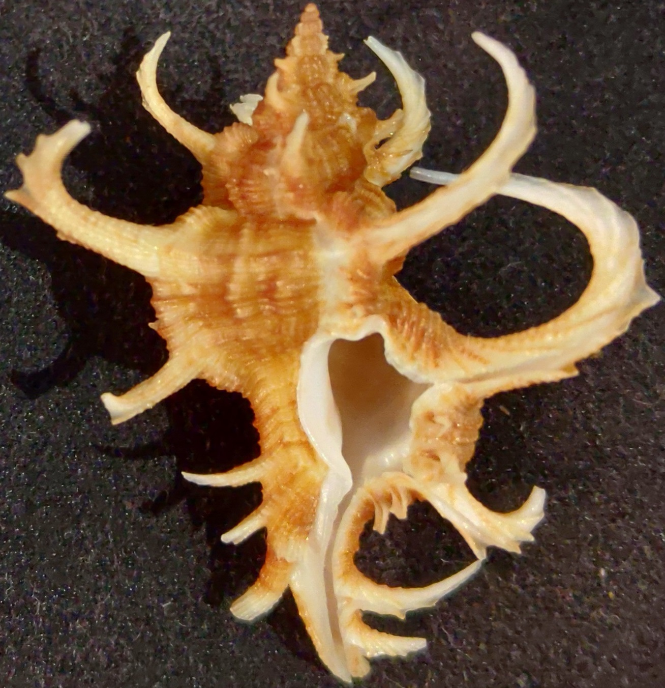 Triplex Axicornis Kawamurai (var.) Front